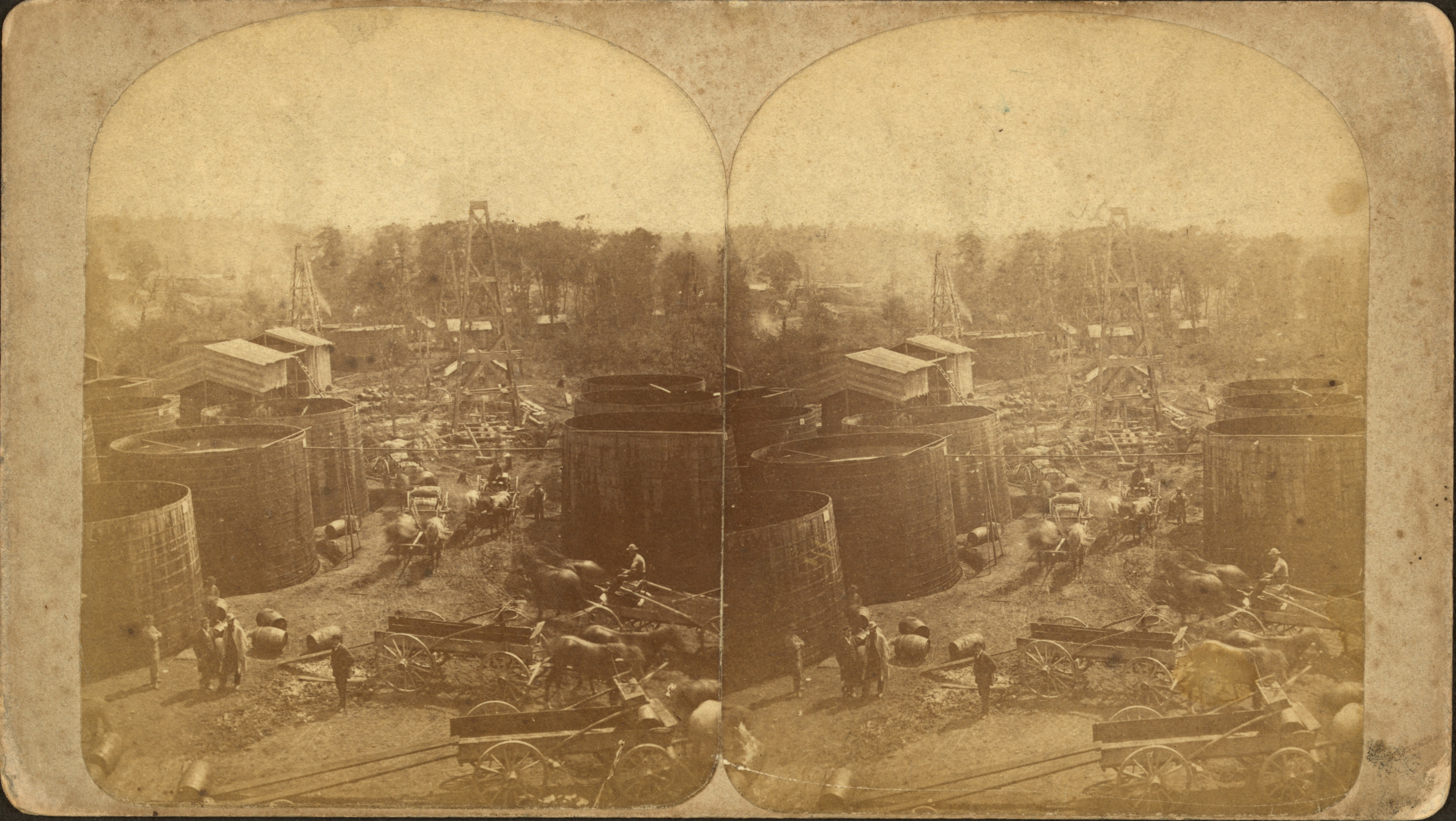 Activity around the United States Well, Pithole, Pennsylvania in the 1860s. Original caption was "The United States Well at Pithole was struck Jan. 8th, 1865 and flowed 800 bbls per day."